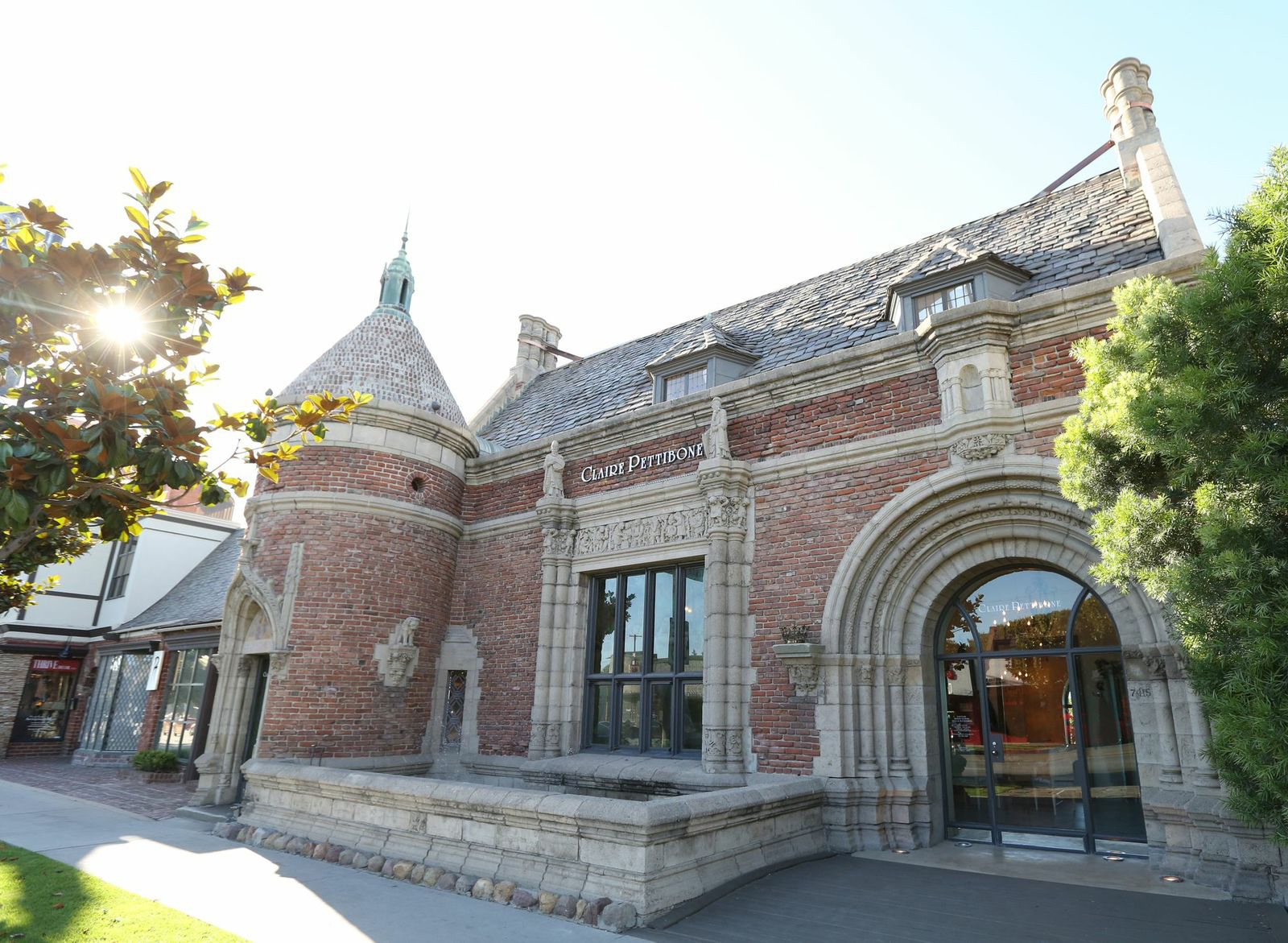 7415 Beverly Boulevard, Los Angeles, CA 90036 in the Heinsbergen Decorating Company Building